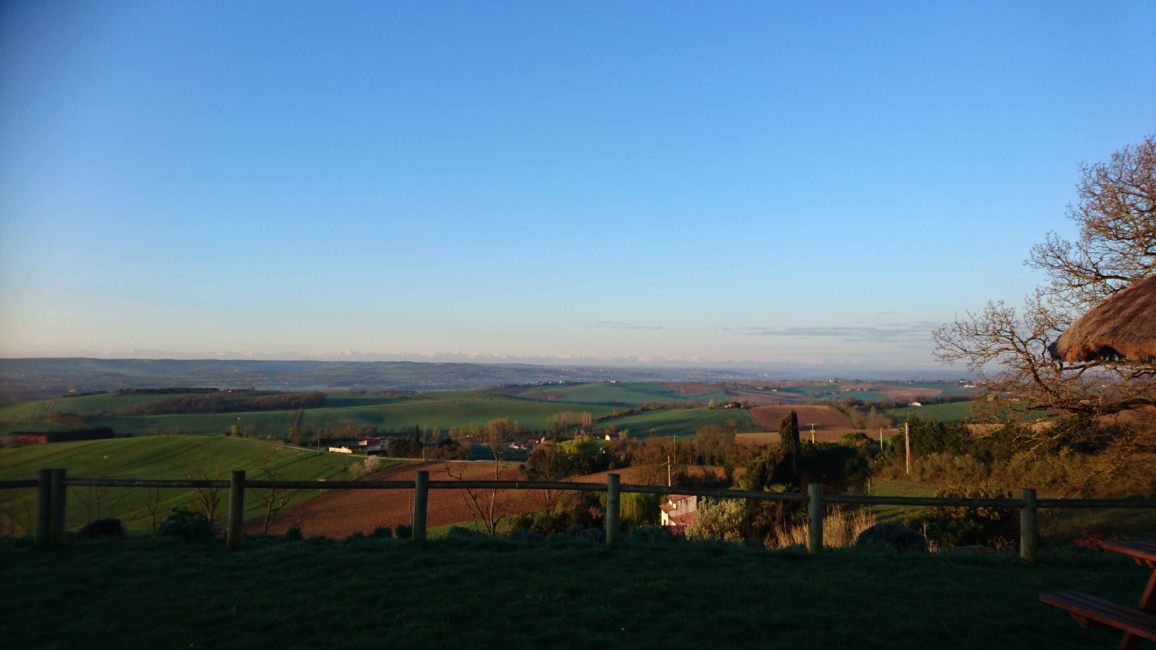 Nice spot on the Pyrénées mountain where you can have a seat.